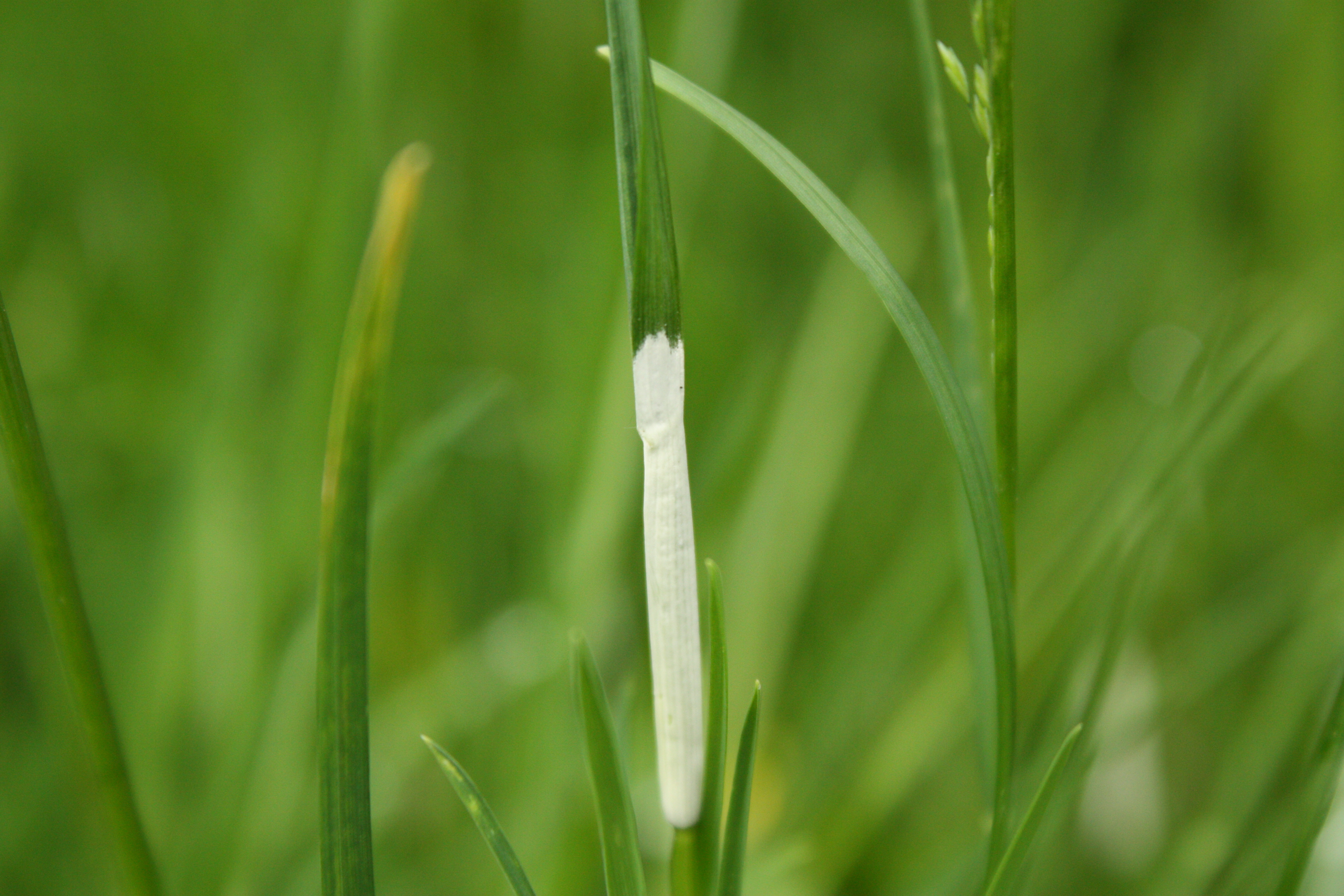 Epichloe typhina on Poa pratensis